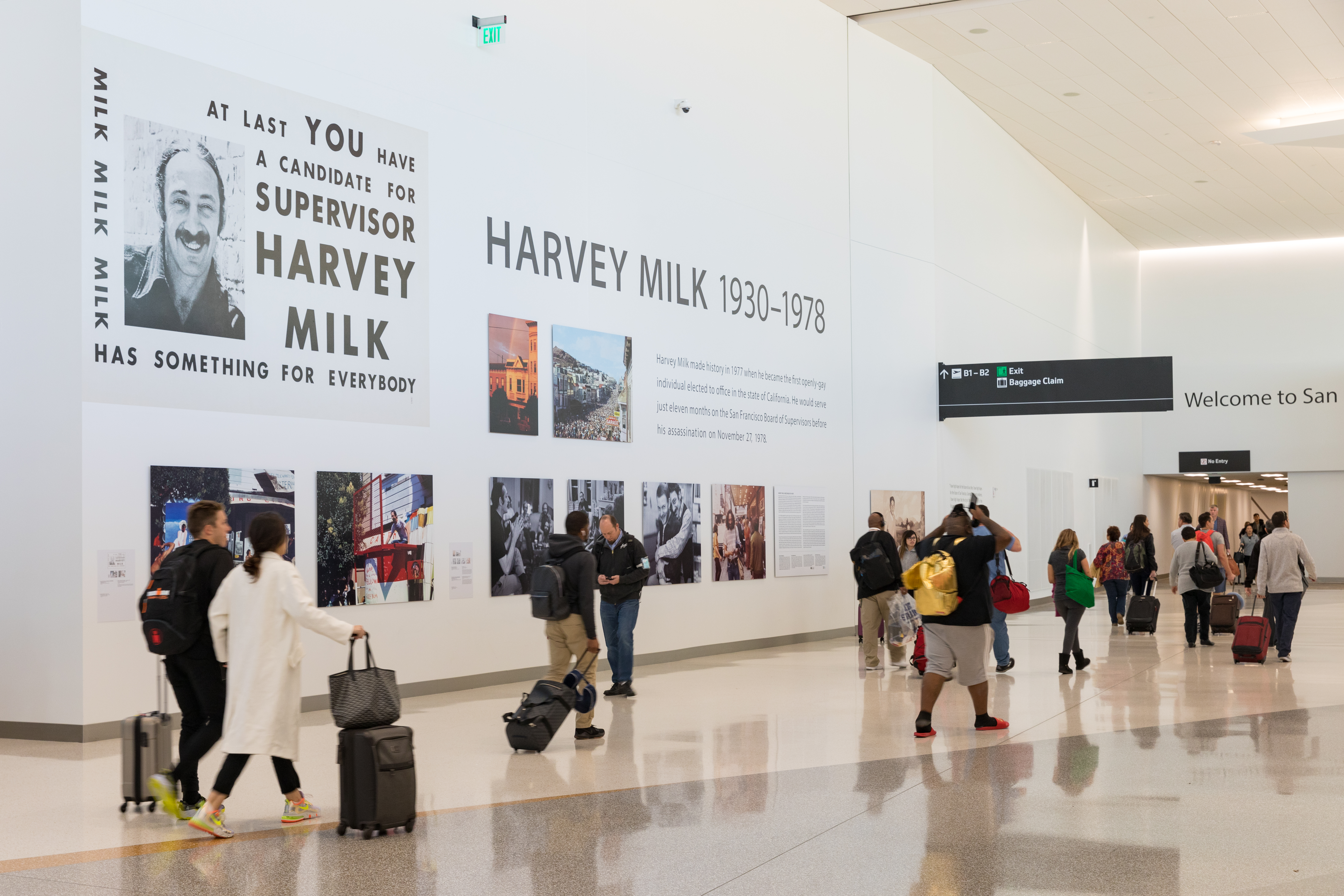 Harvey Milk Terminal 1 at San Francisco International Airport, November 2019